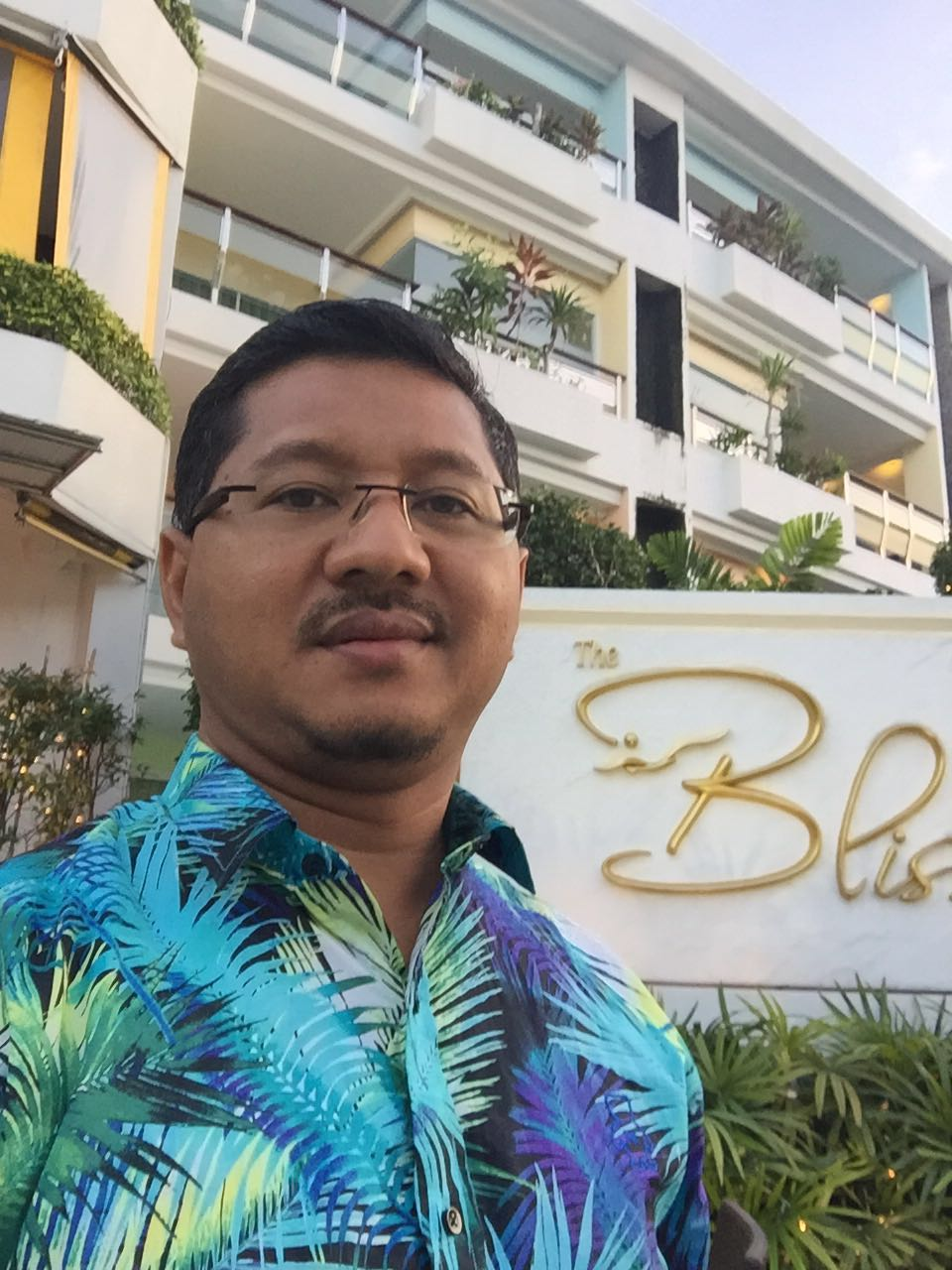 Selfie